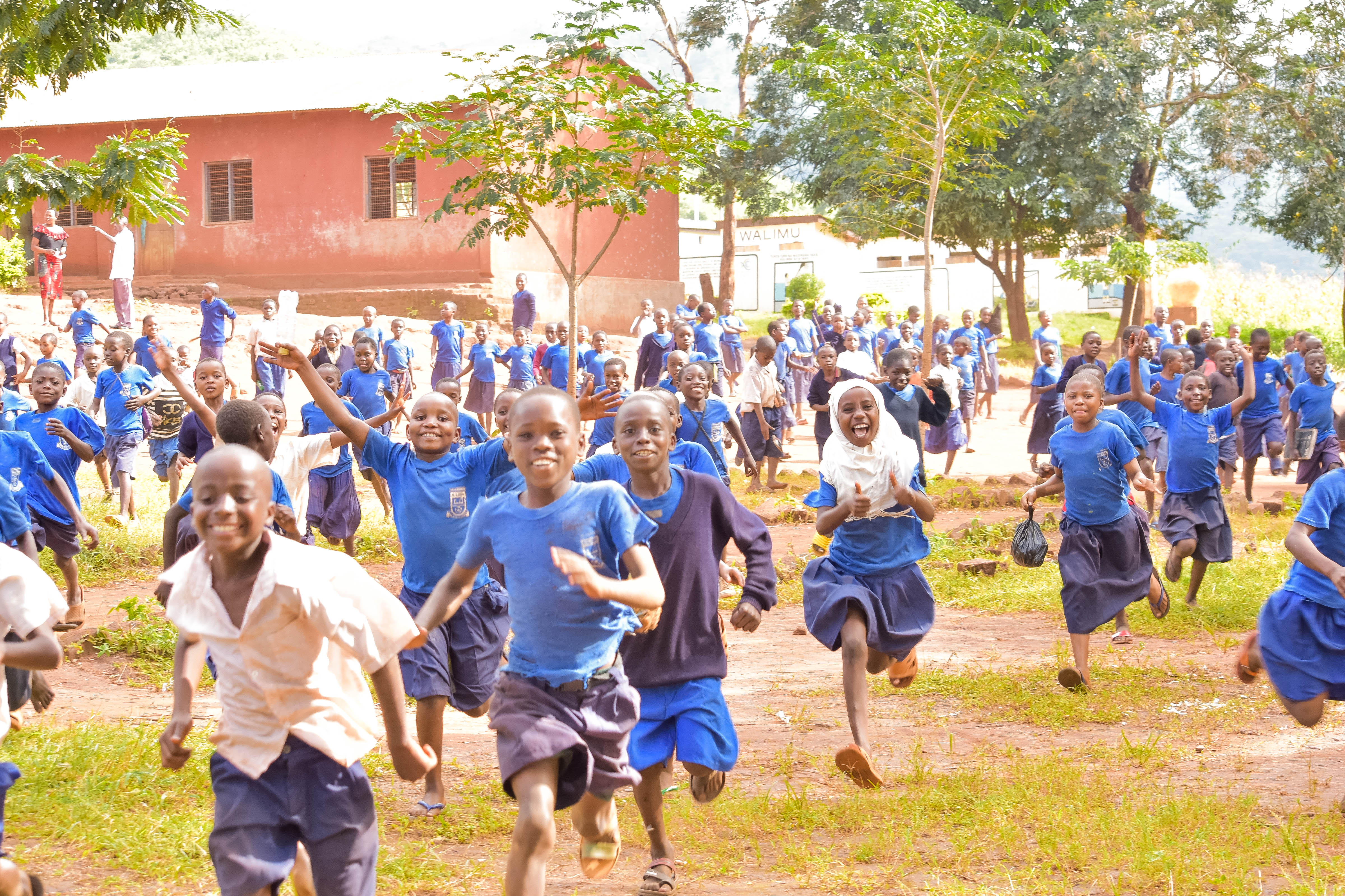 This is an image with the theme "Play" from: Tanzania